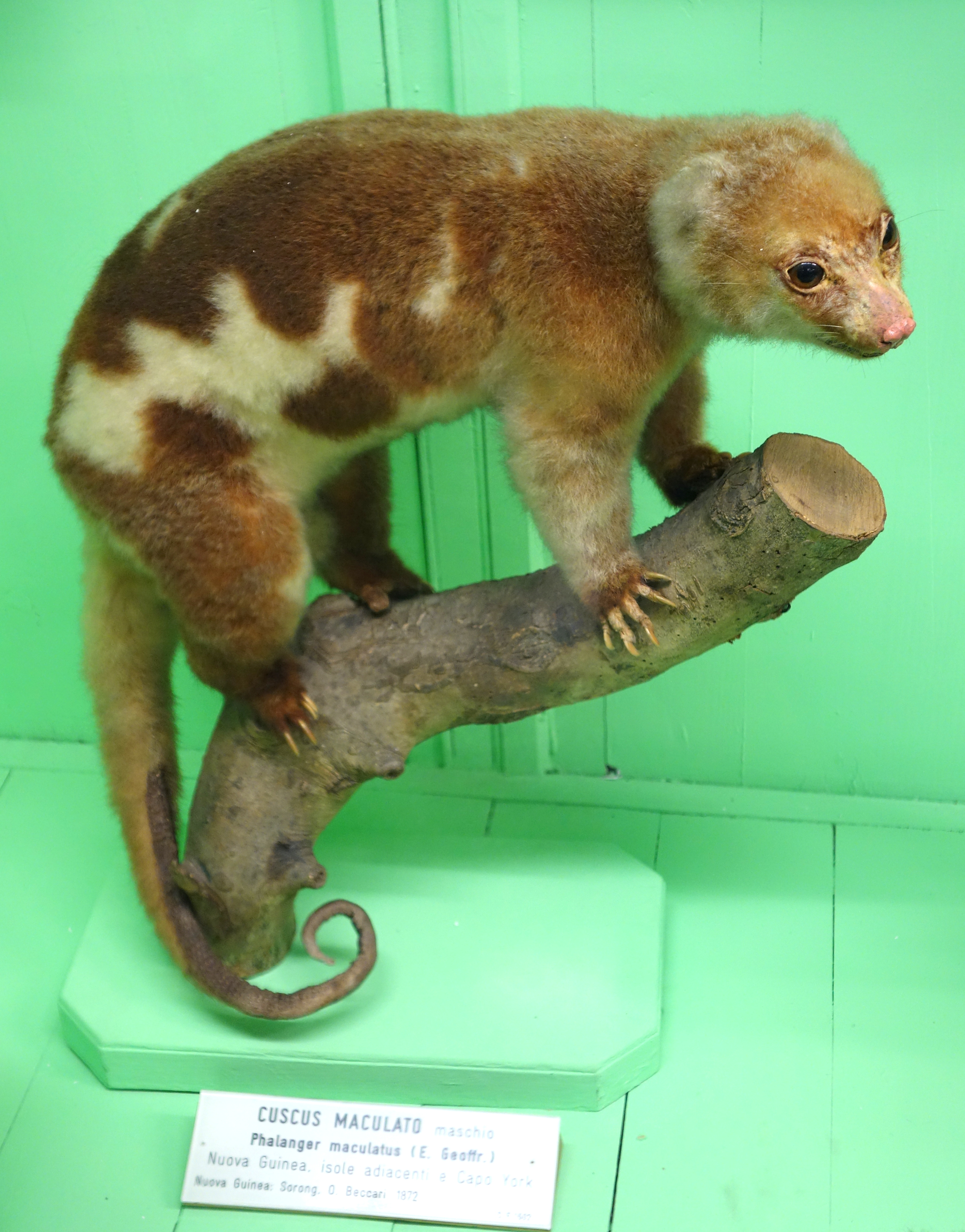 Exhibit in the Museo Civico di Storia Naturale di Genova, Via Brigata Liguria, 9, 16121, Genoa, Italy.